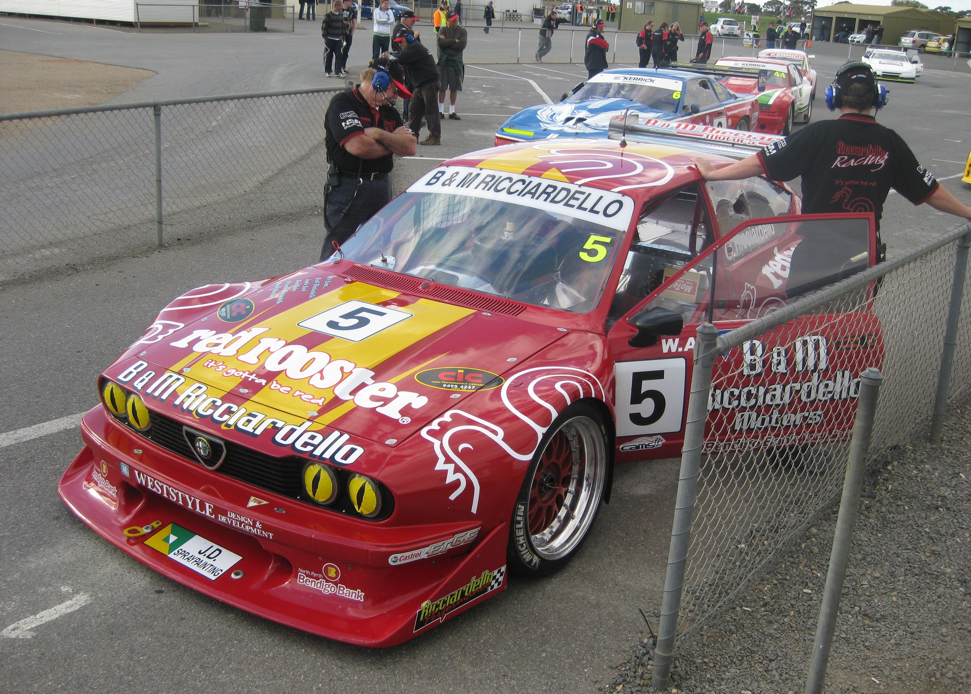 The Alfa Romeo GTV of Tony Ricciardello at Mallala Motor Sport Park for the opening round of the 2011 Kerrick Sports Sedan Series